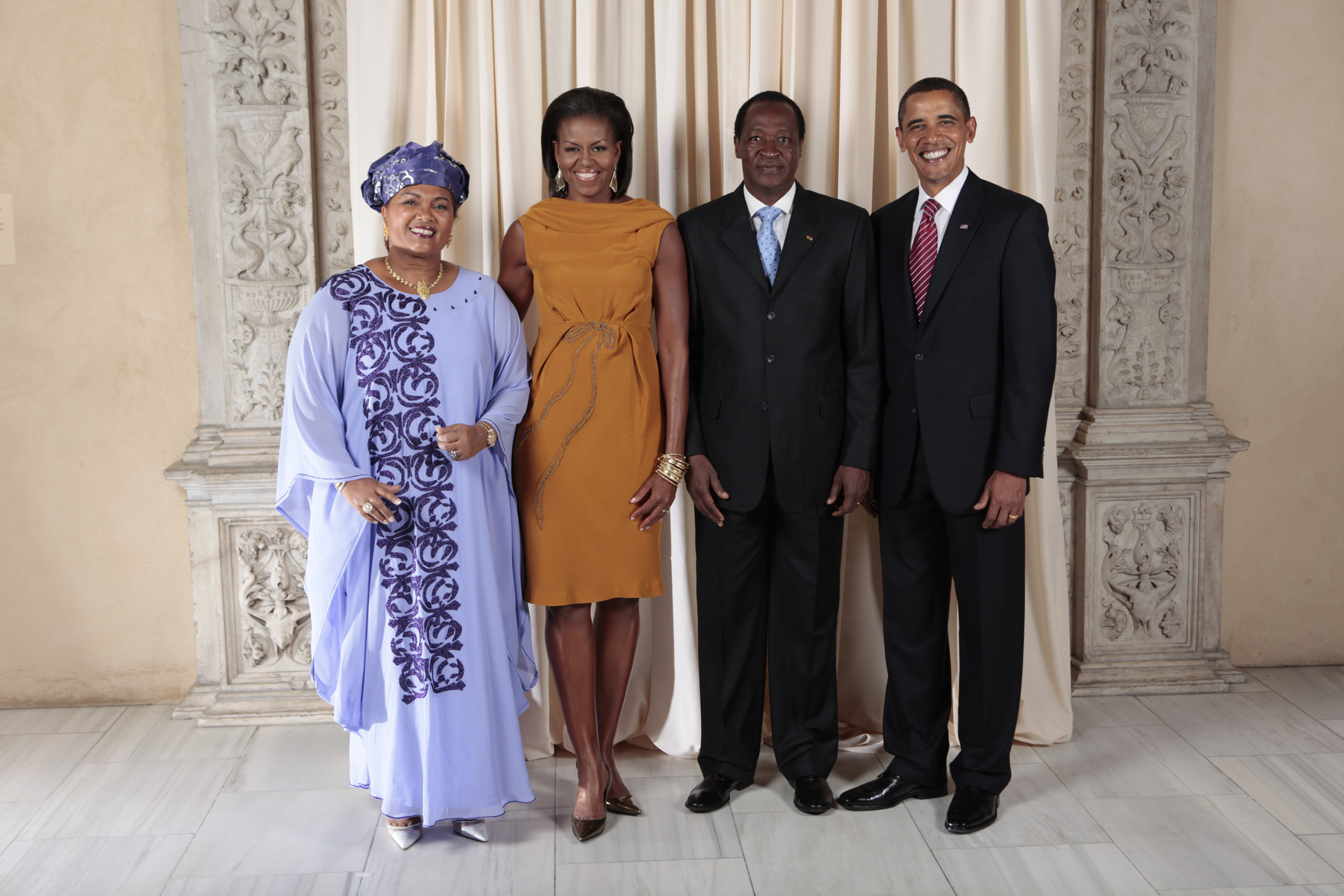 President Barack Obama and First Lady Michelle Obama pose for a photo during a reception at the Metropolitan Museum in New York with Burkina Faso President Blaise Compaore and his wife, First Lady Chantal Compaore.